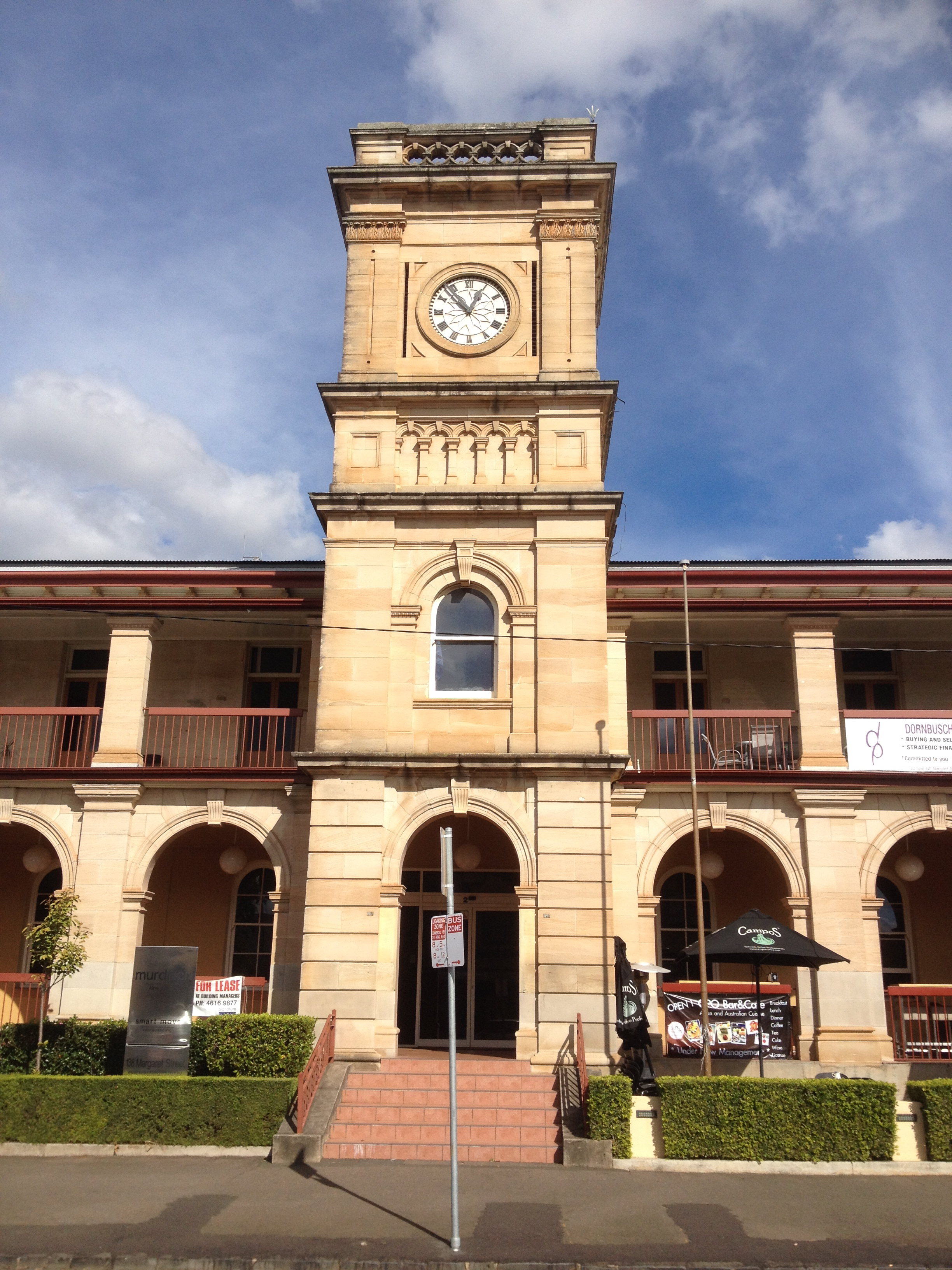 Former Toowoomba Post Office at 136 Margaret Street, Toowoomba